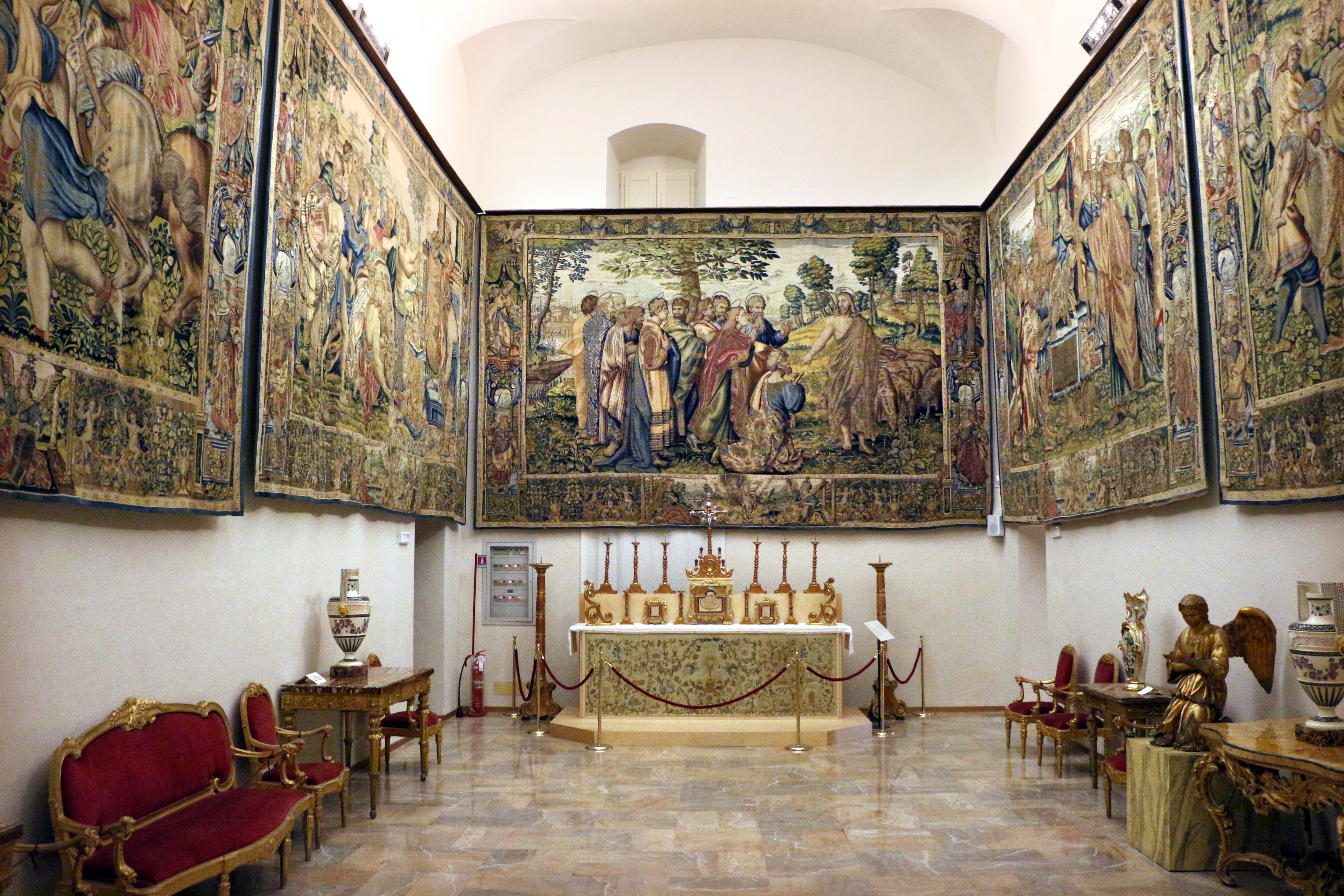 Museo della Santa Casa, Loreto